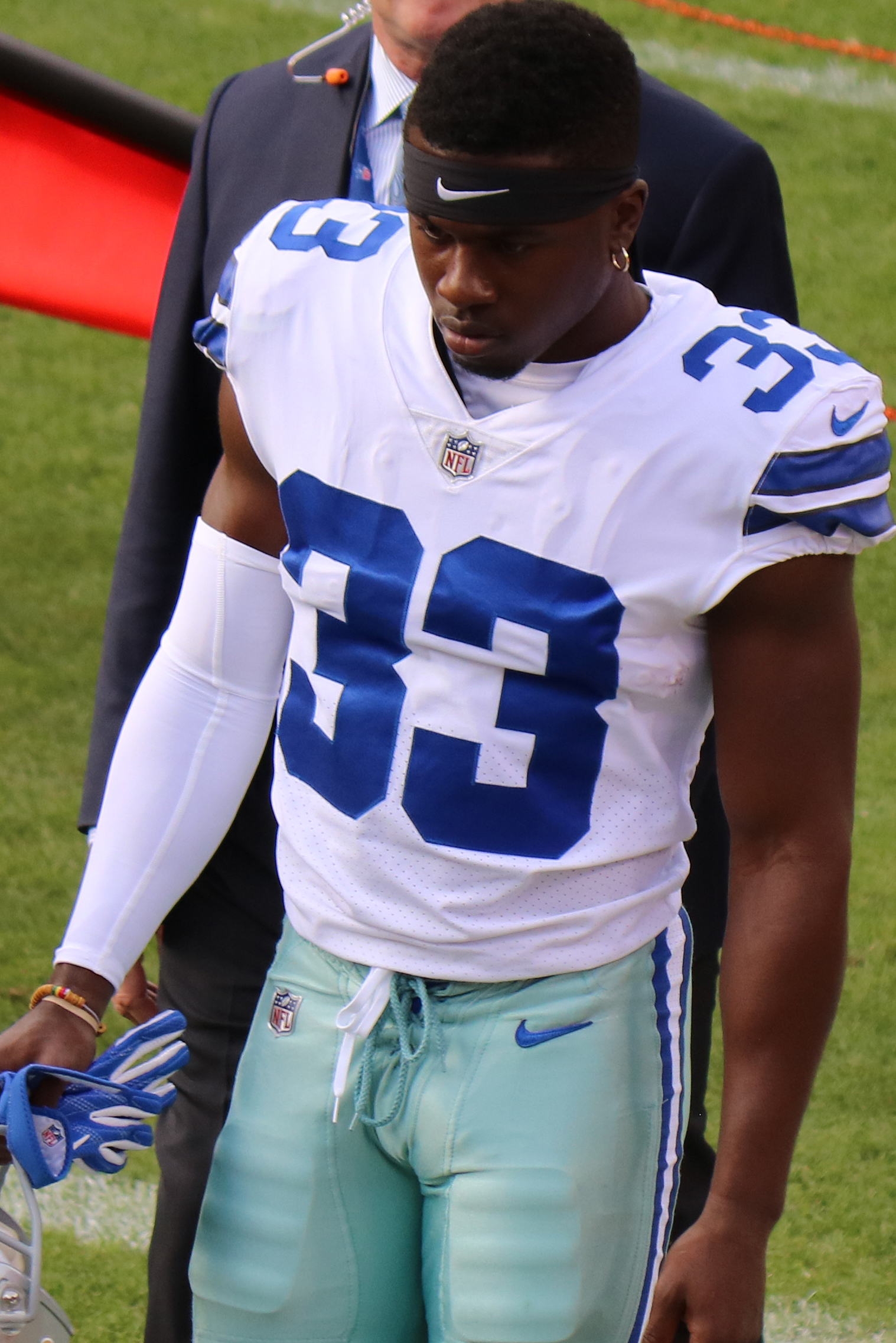 Chidobe Awuzie, a player on the National Football League.